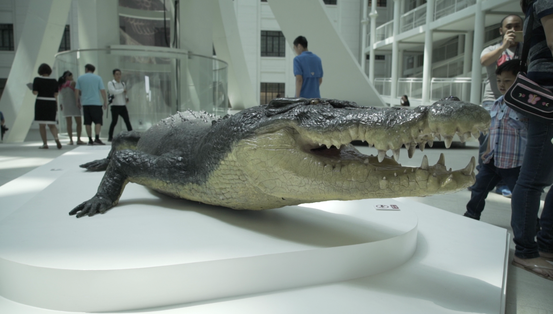 Lolong's replica greets visitors at the upper entrance of the National Musuem of Natural History, Manila